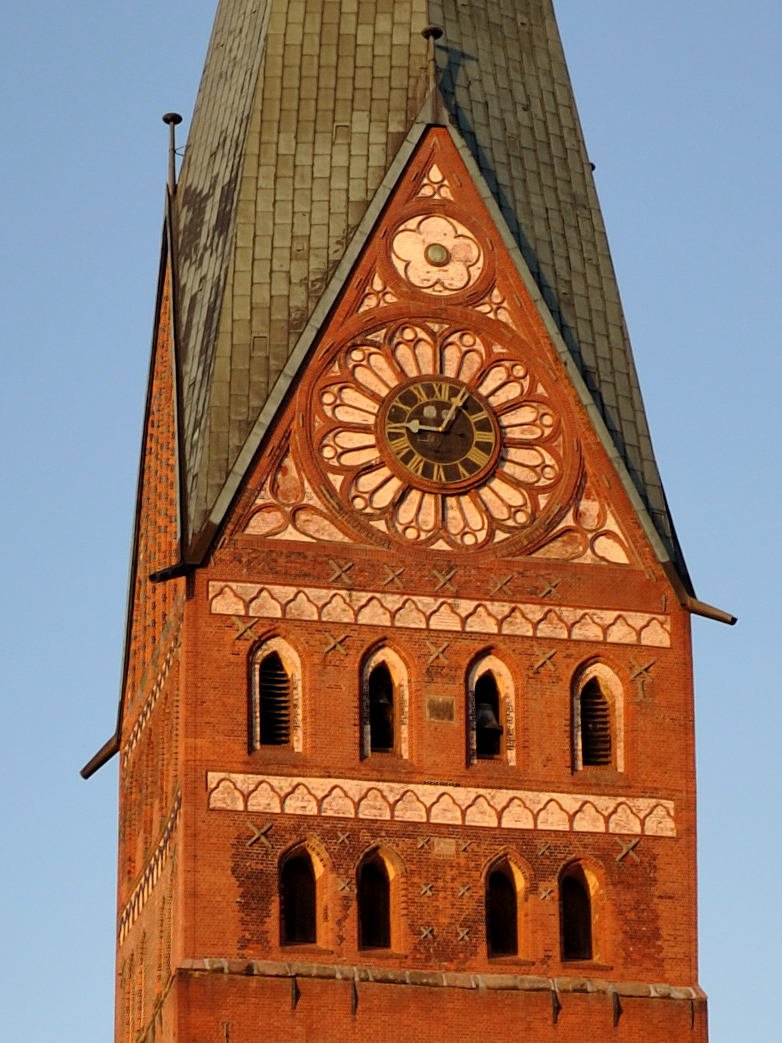 Picture taken in Lüneburg during Skillshare conference.